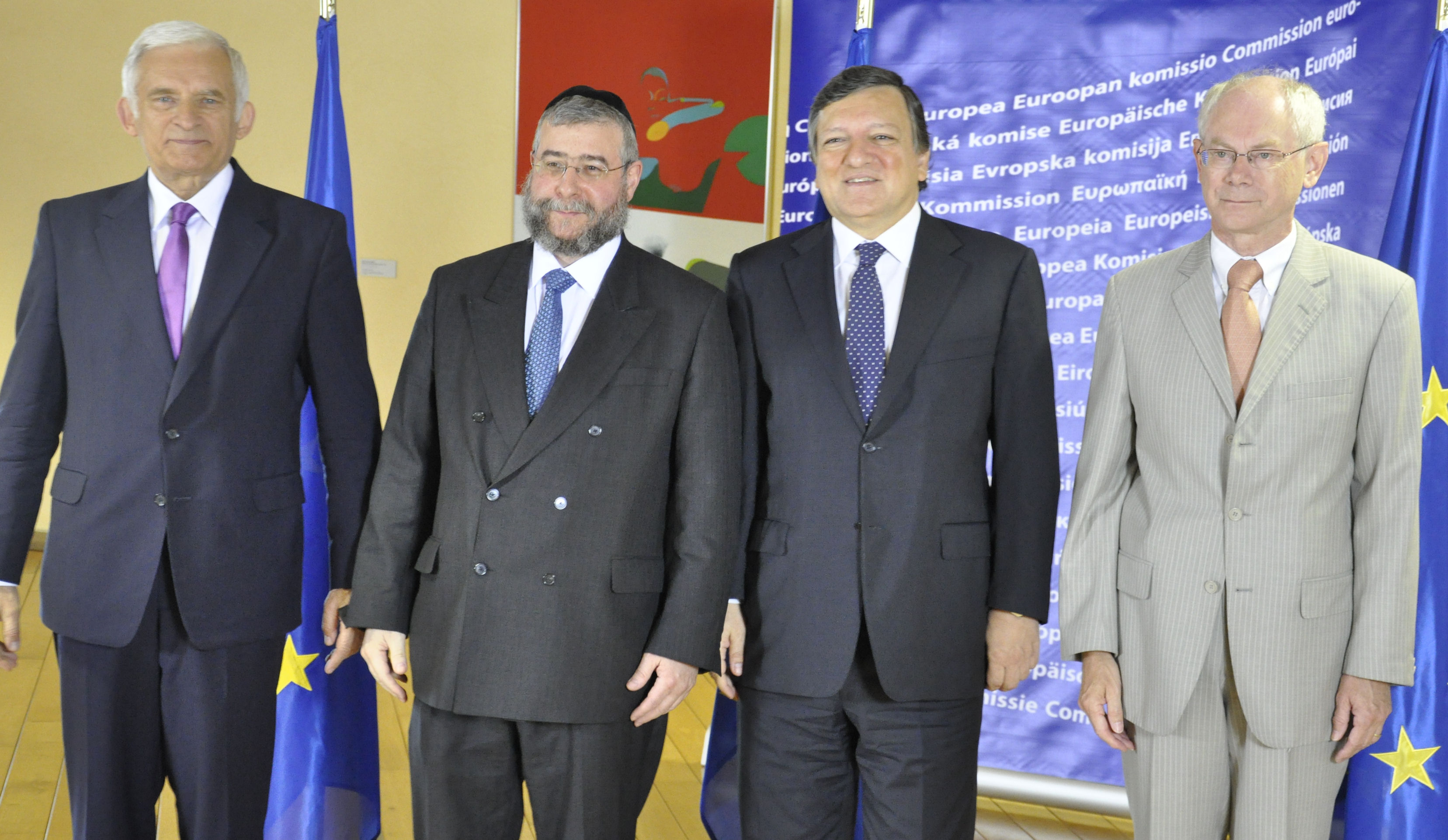 Jerzy Buzek - Pinchas Goldschmidt - Jose Manuel Barroso - Herman Van Rompuy - EU Meeting of Religious Leaders - Brussels, May 2011